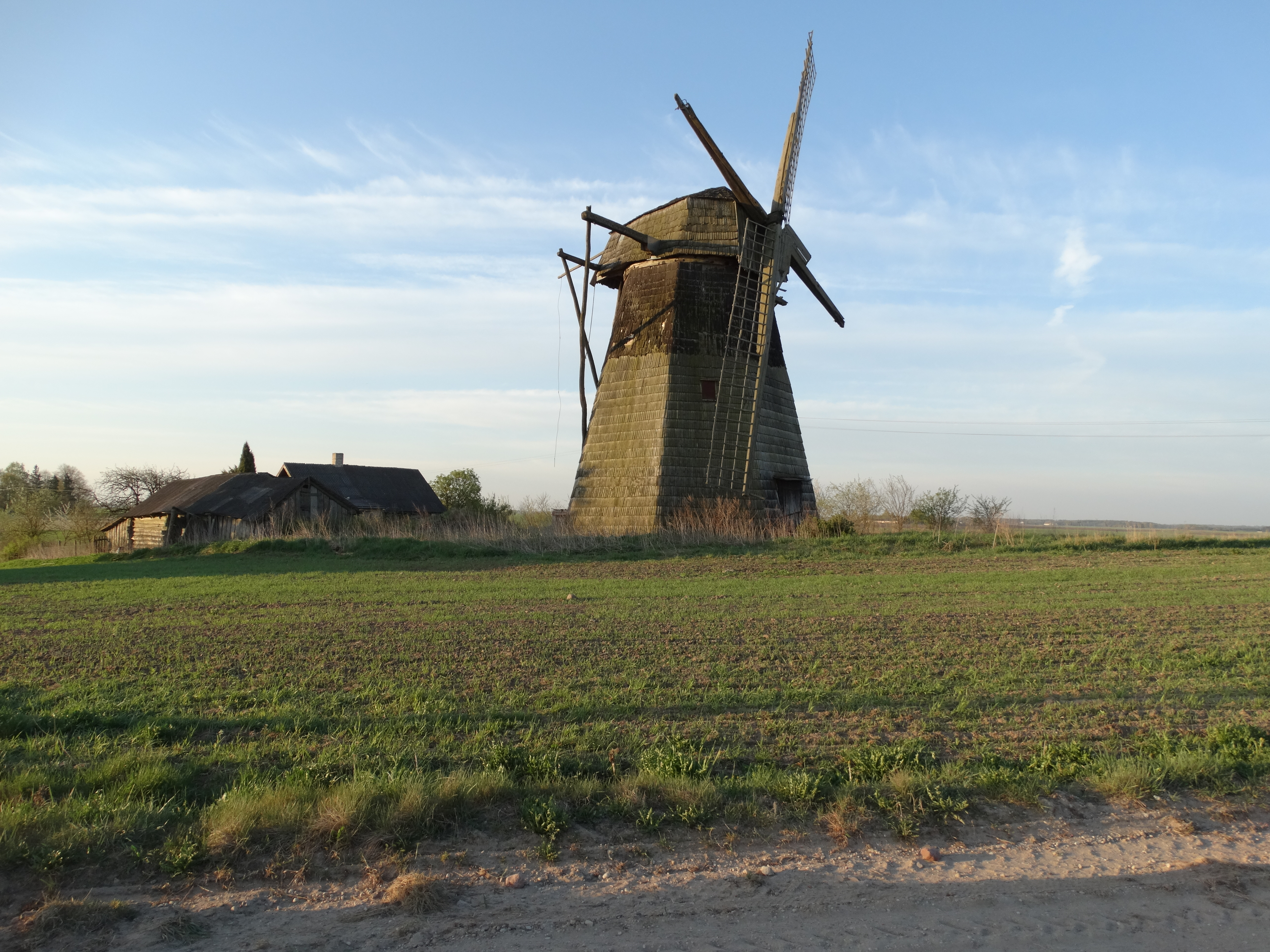 Paežeriai windmill, Radviliškis District, Lithuania